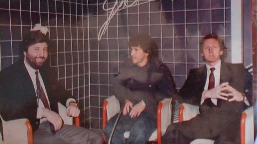 Arthur Antunes Coimbra in the Telefriuli studios interviewed by Marco Caineri and Franco Terenzani